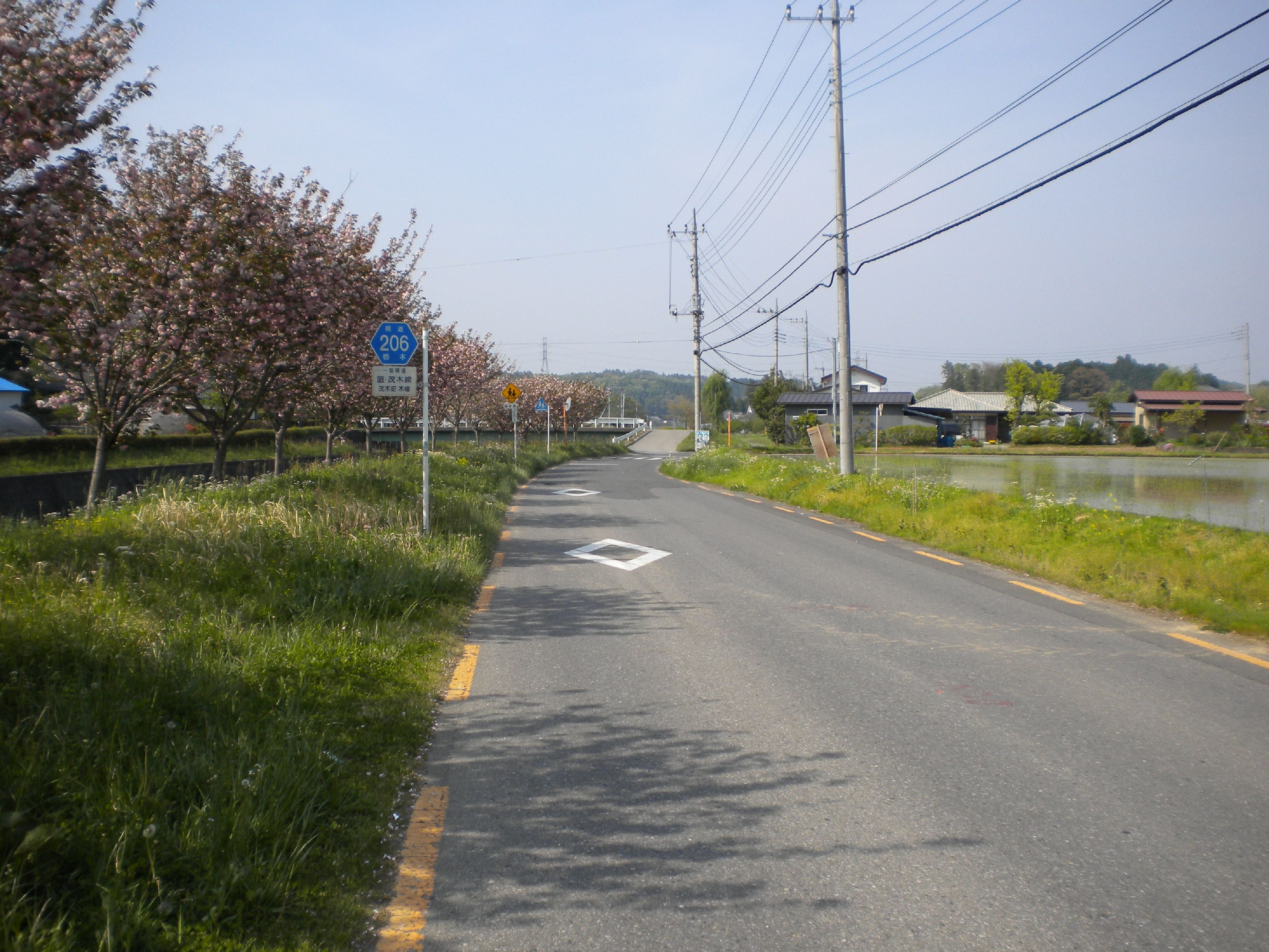 Tochigi prefectural road No.206 on Motegi town